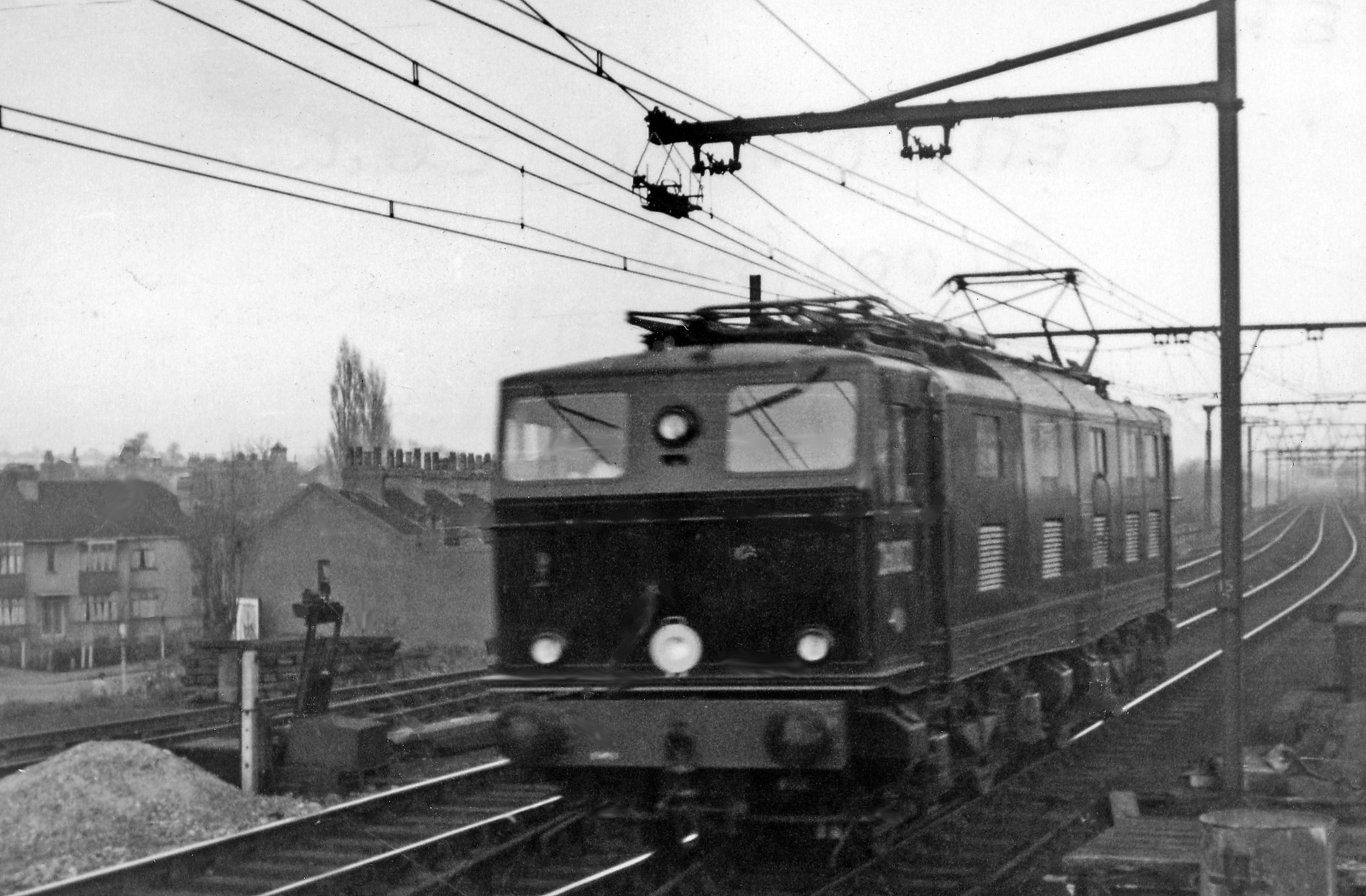 Pioneer main-line Bo-Bo Electric locomotive at Harold Wood station. View NE, towards Colchester etc. on the ex-GE main line from Liverpool Street. No. 26002 was new and only the second of the production series of these Class EM1 locomotives built by Metropolitan-Vickers for the 1,500v overhead electrification between Manchester and Sheffield/Wath, which was currently in progress but not completed until June 1954. Here it was only November 1950, but the main line Liverpool Street - Shenfield had been electrified since September 1949. The locomotive's regenerative braking system may have been under test here, as it is coming down Brentwood Bank.